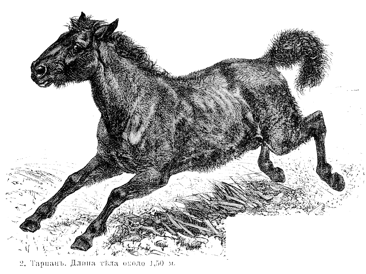 Illustration from Brockhaus and Efron Encyclopedic Dictionary (1890—1907)